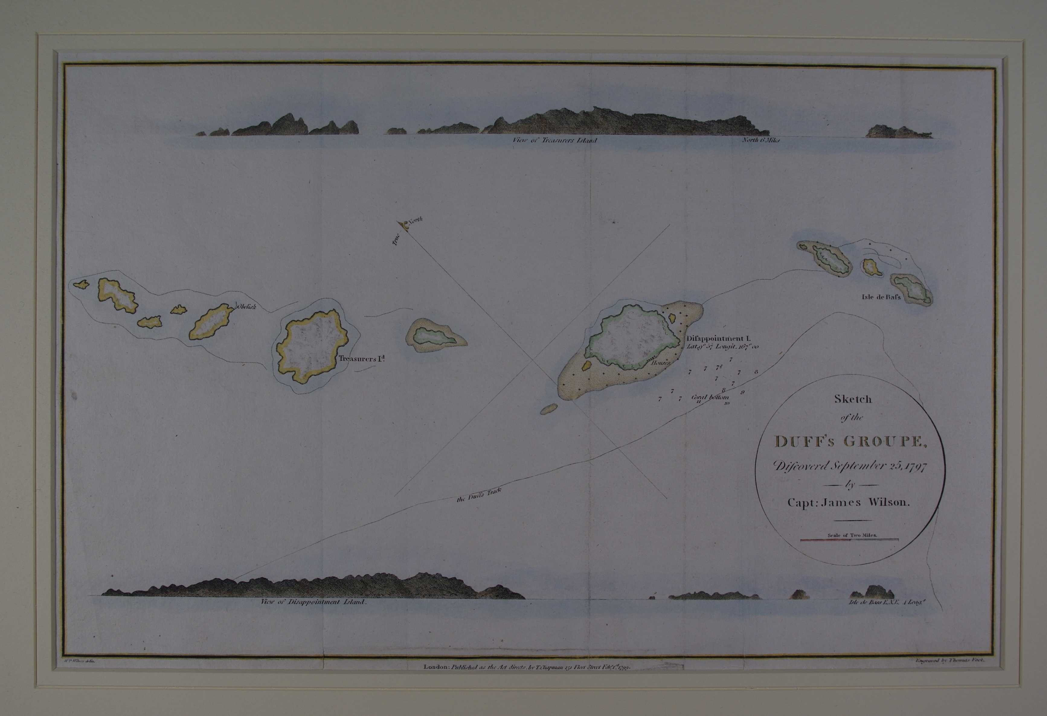 map of Duff Islands, Solomon IslandsPublished in: James Wilson: A Missionary Voyage to the southern Pacific Ocean . . . T. Chapman London, 1799, facing page 291